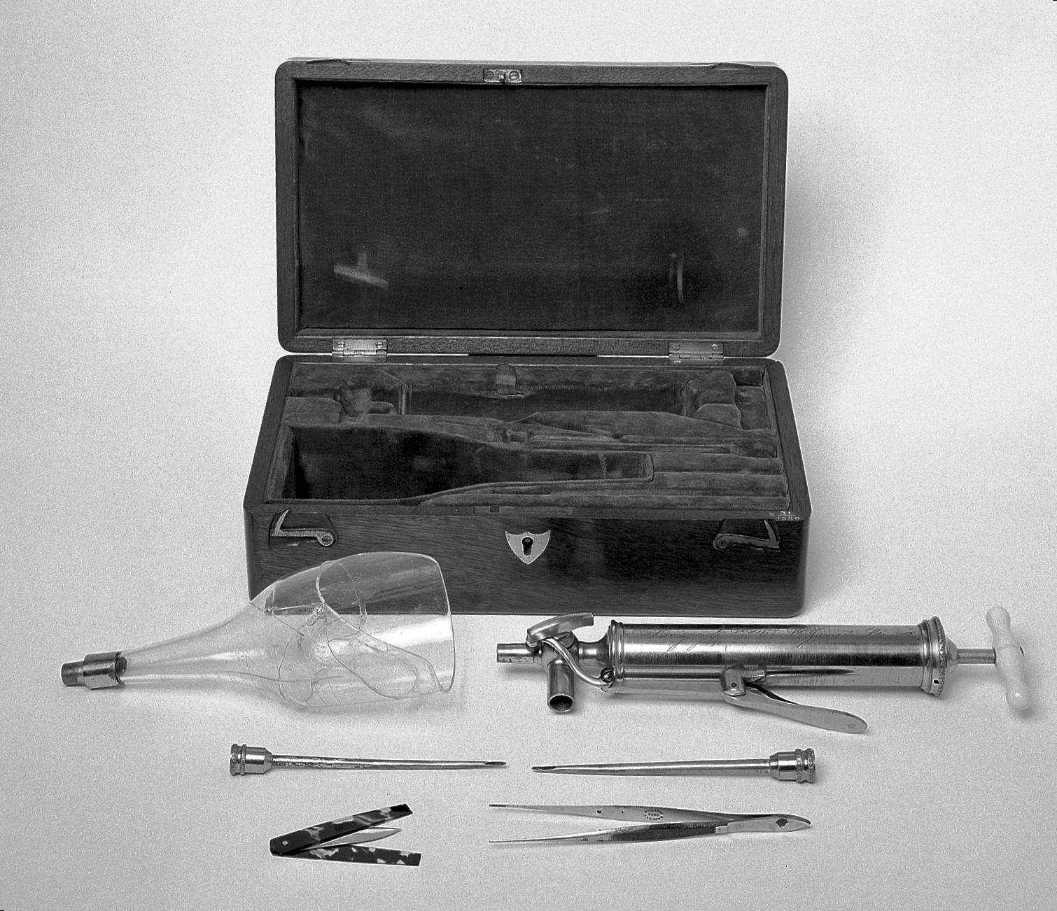 BLUNDELL, James Photograph: blood-transfusion apparatus, designed by James Blundell, made by Savigny & Co.; anon., n.d. Wellcome Images Keywords: blundell, james; cardiology: blood transfusion; whmm r31/1950